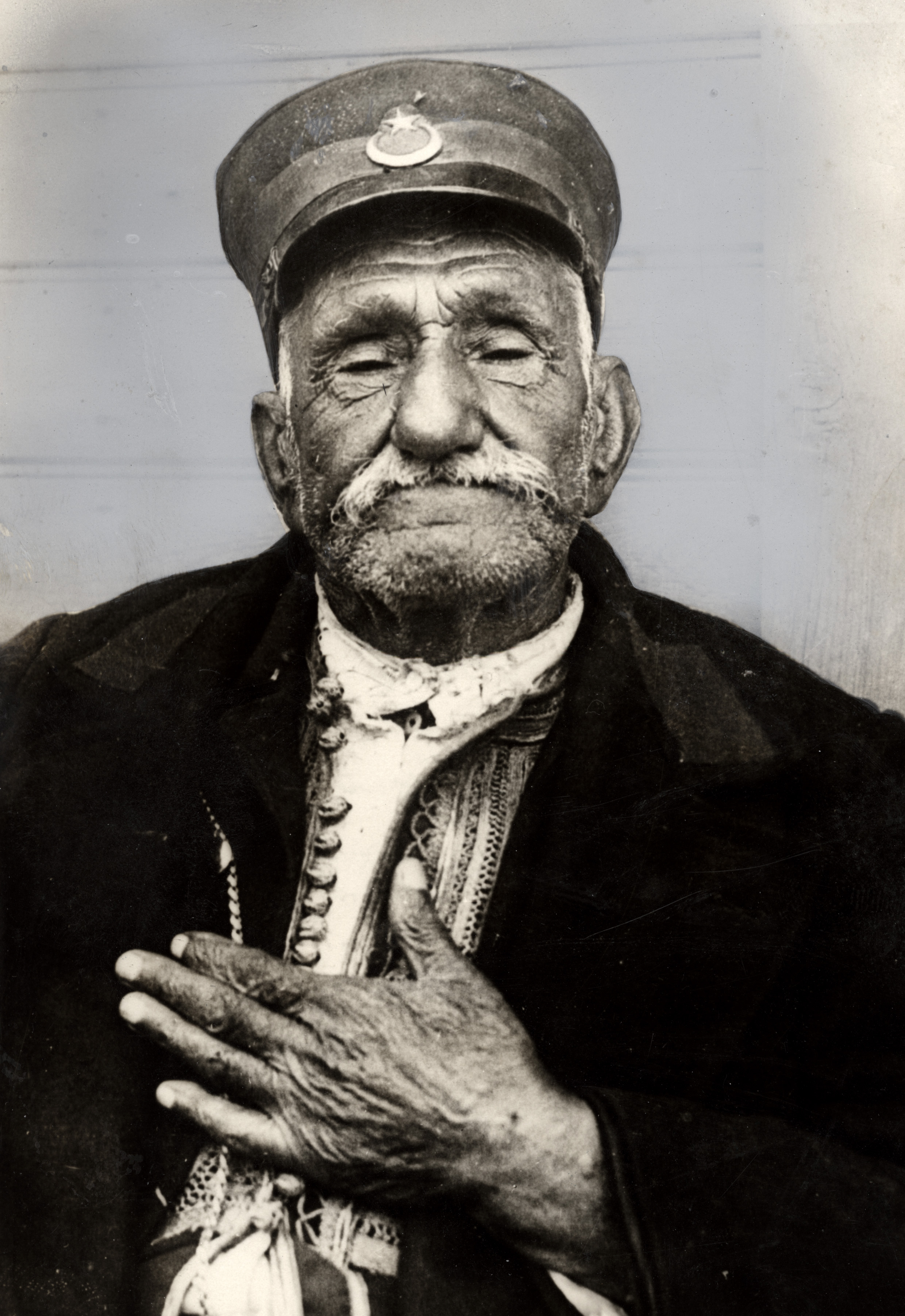 Zaro Agha, the oldest Turk ever. It is said he reached the age of 153. Turkey, location unknown, 1925-1940. Hebt u meer informatie over deze foto, laat het ons weten. Laat een reactie achter (als u ingelogd bent bij Flickr) of stuur een mailtje naar: Please help us gain more knowledge on the content of our collection by simply adding a comment with information. If you do not wish to log in, you can write an e-mail to: Meer foto’s van Spaarnestad Photo zijn te vinden op onze beeldbank